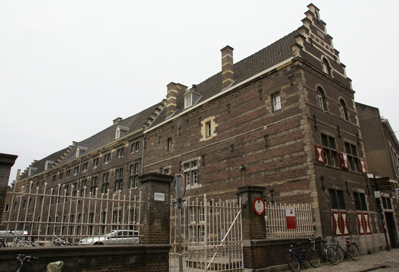 National monument no. 506715 - Lenculenstraat 31, Maastricht, The Netherlands